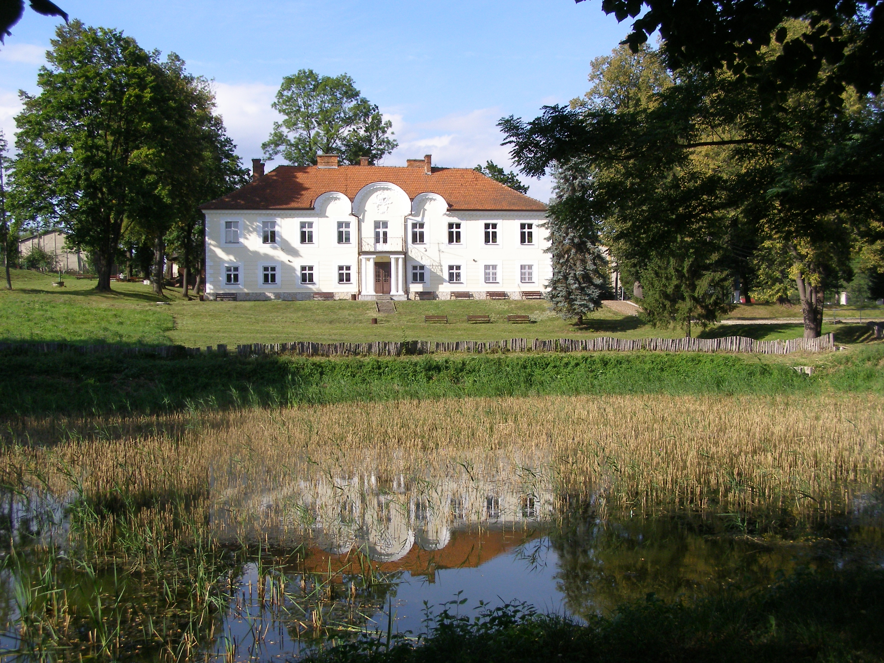 Ryglice - Ankwicz palace